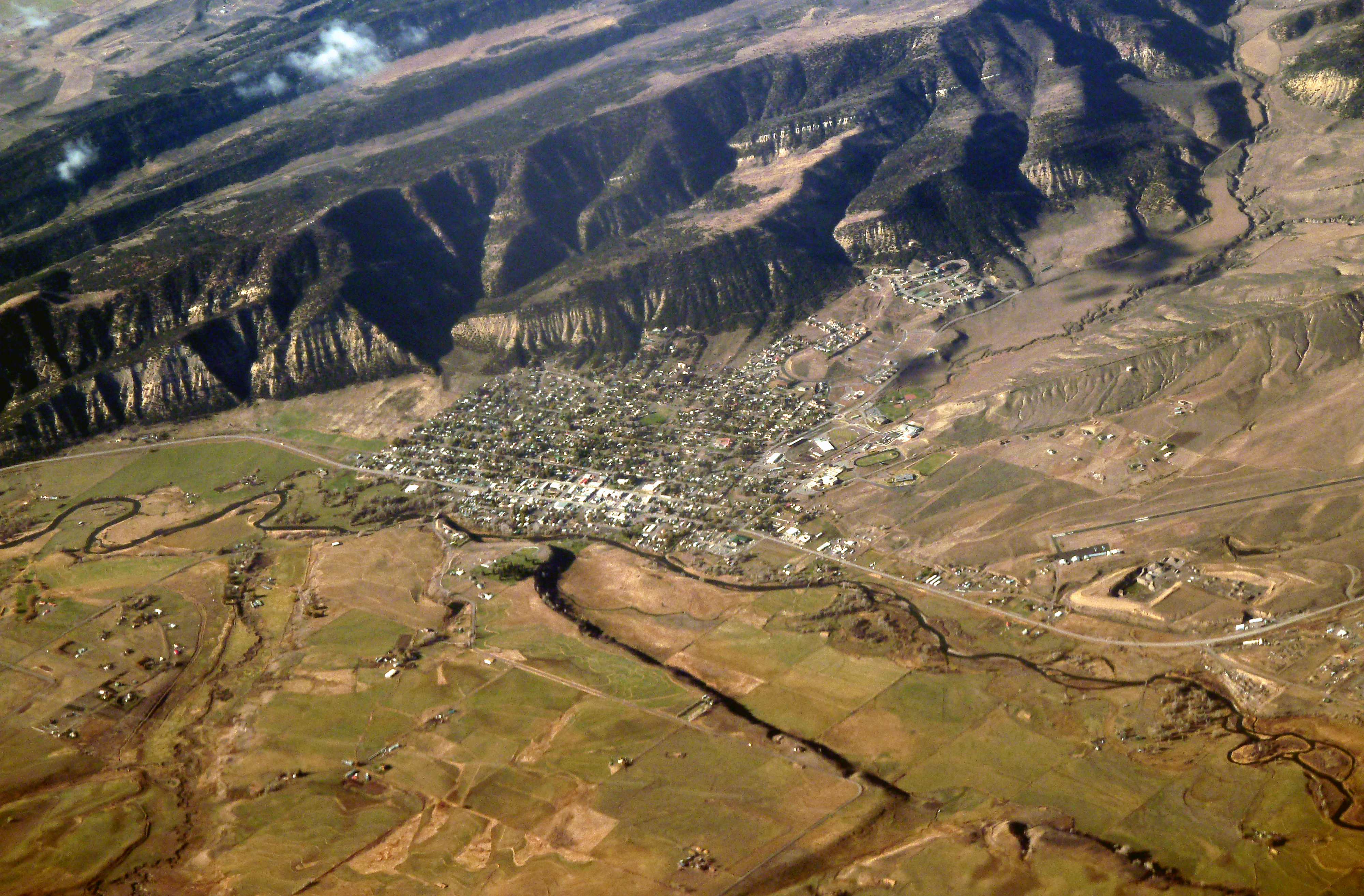 Aerial photograph of Meeker, Colorado, USA.